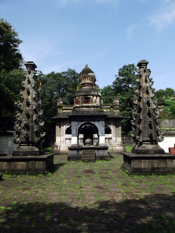 Pateshwar shiva temple is located in 5km from Satara town